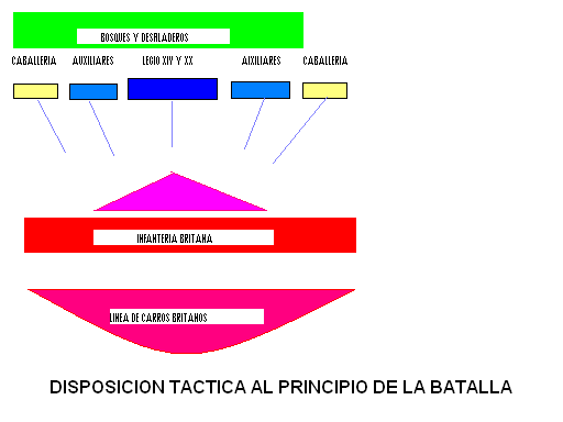 Troops deploy in Watling Street battle